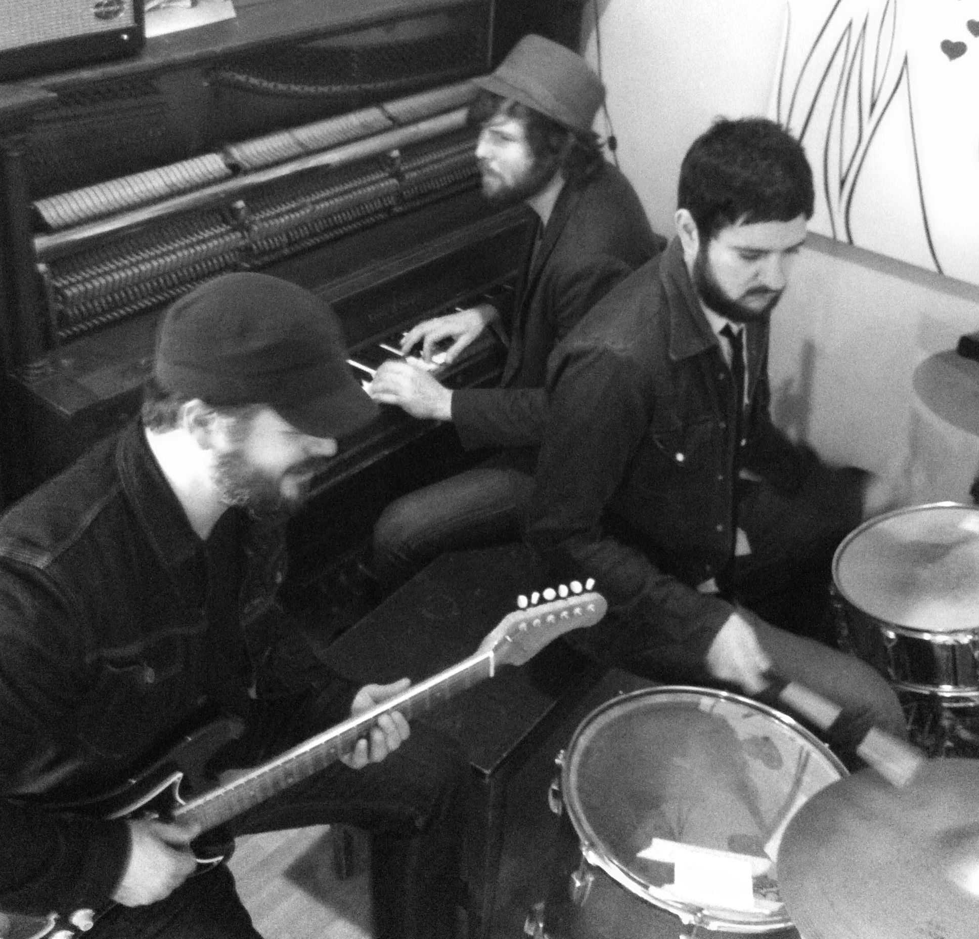 The Record Company - Chris Vos, Alex Wood, Marc Cazorla